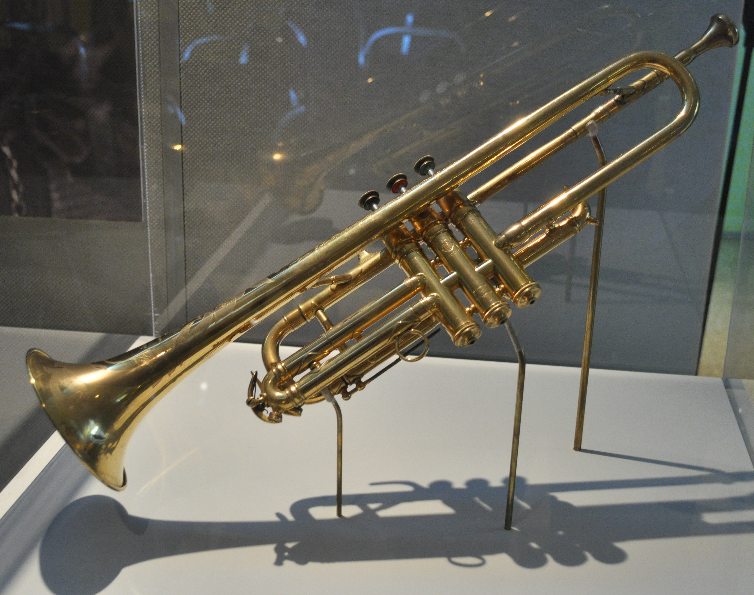 Selmer trumpet, given as a gift by King George V of the United Kingdom to Louis Armstrong. Louis Armstrong Museum, 34-56 107 St., Corona, Queens, NY.